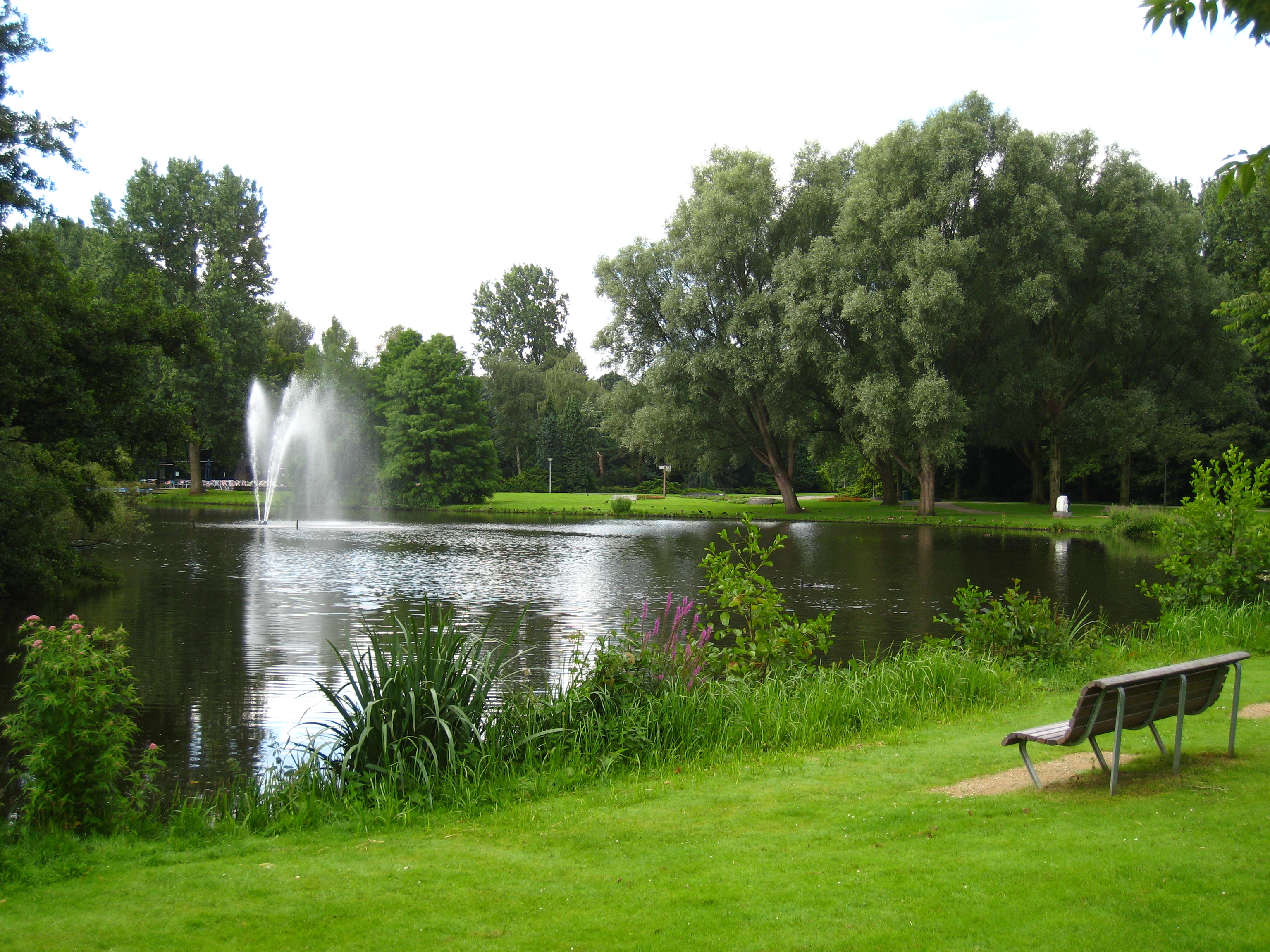 Photograph taken in the Amstelpark, Amsterdam, Holland. The Amstelpark is a park originally created for the 1972 floriade.